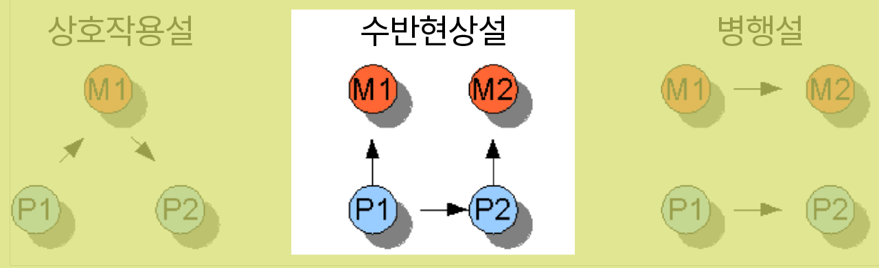 Epiphenomenalism, in Korean. 수반현상설.